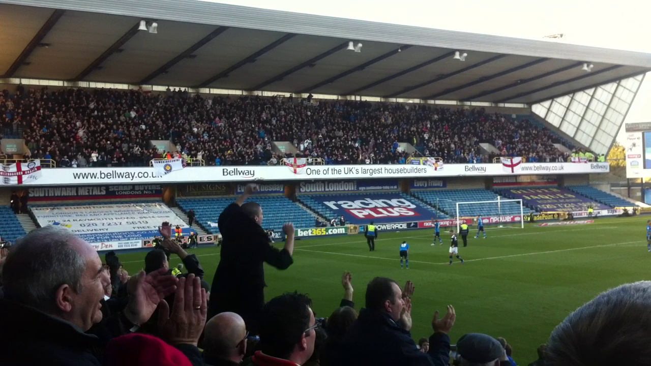 Leeds fans in the North Stand at the Den, after a 1-0 loss to Millwall on 18 November, 2012